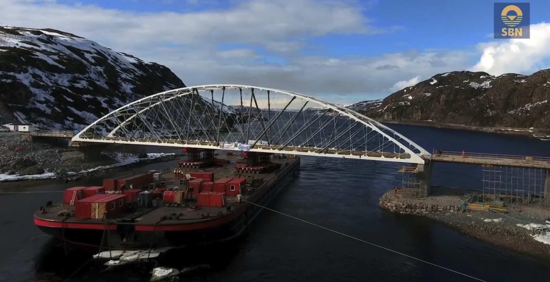 The Bøkfjord bridge, Sør-Varanger, Norway, during mounting. Photo from the published video at time 3:28Norsk bokmål: Bøkfjordbrua, Sør-Varanger